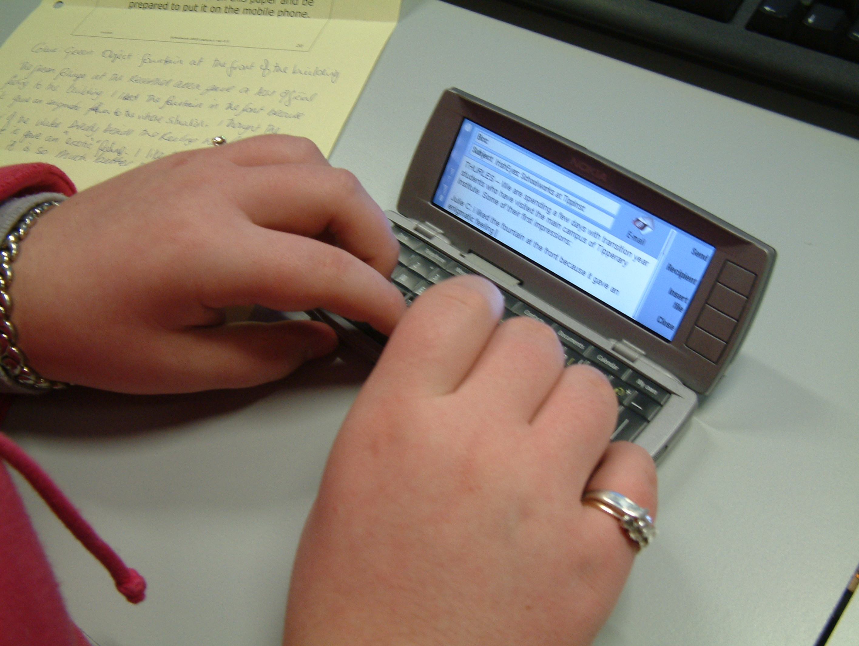 Julie Carroll Using the Nokia 9500